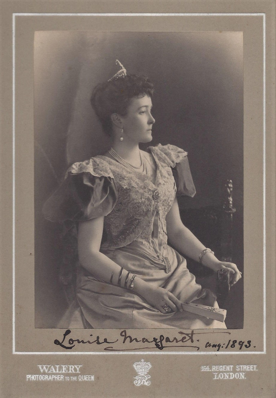 Photo by Walery of London signed by Princess Louise Margaret of Prussia later Duchess of Connaught and Strathearn. (Louise Margaret. Aug: 1893.